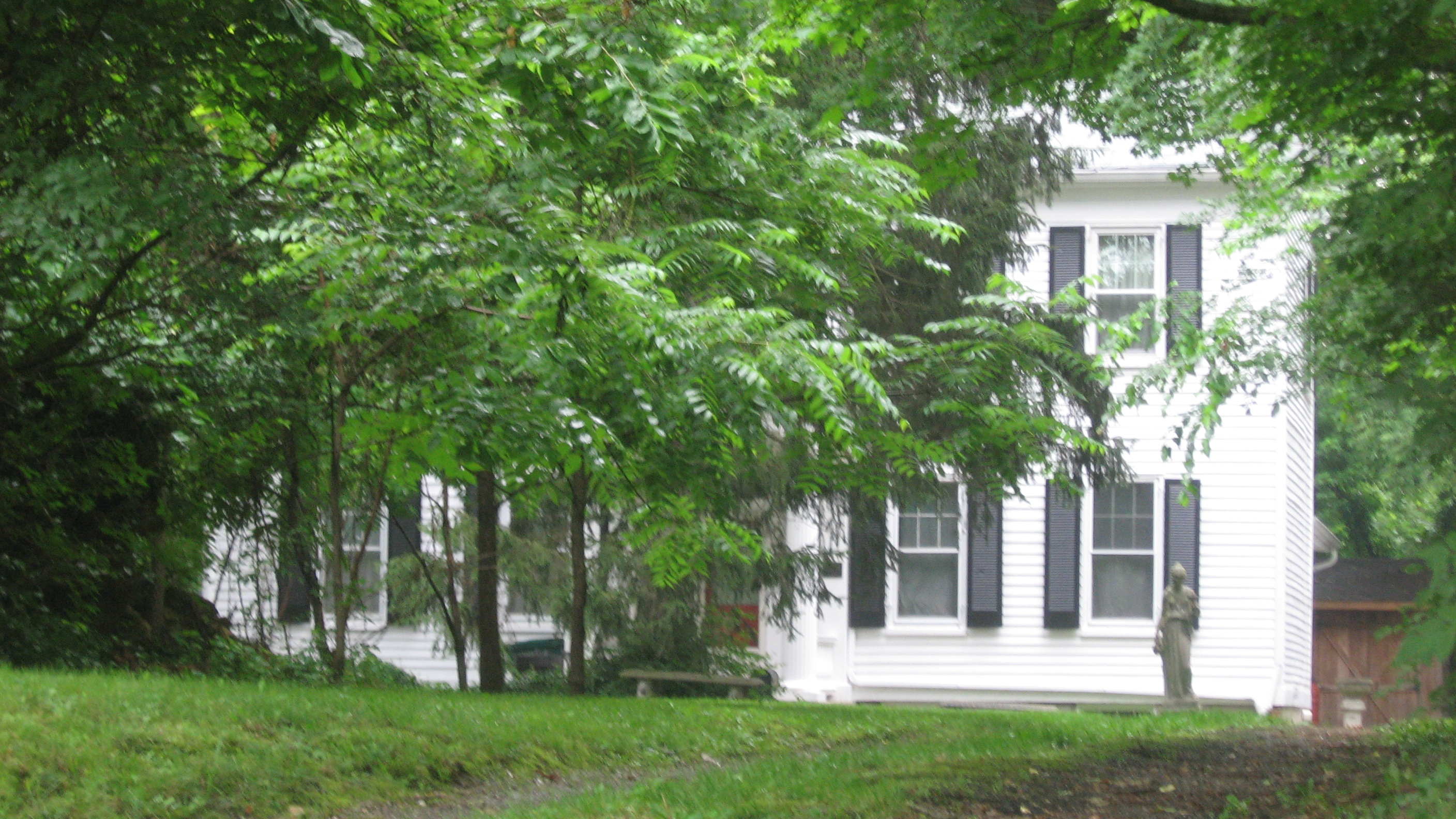 Front of the Ayres L. Bramble House, located at 4416 Homer Avenue in Cincinnati, Ohio, United States. Built in 1815, it is listed on the National Register of Historic Places.